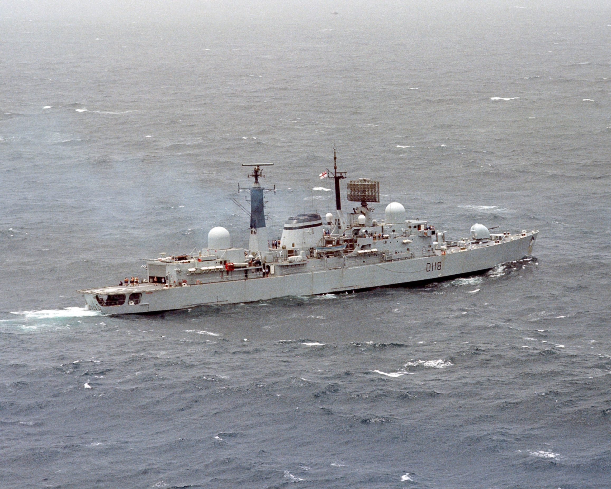 The British destroyer HMS Coventry (D118) underway.